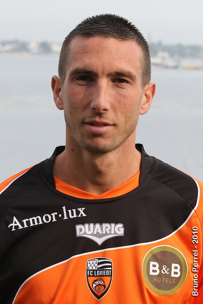 Morgan Amalfitano, player from the FC Lorient soccer team